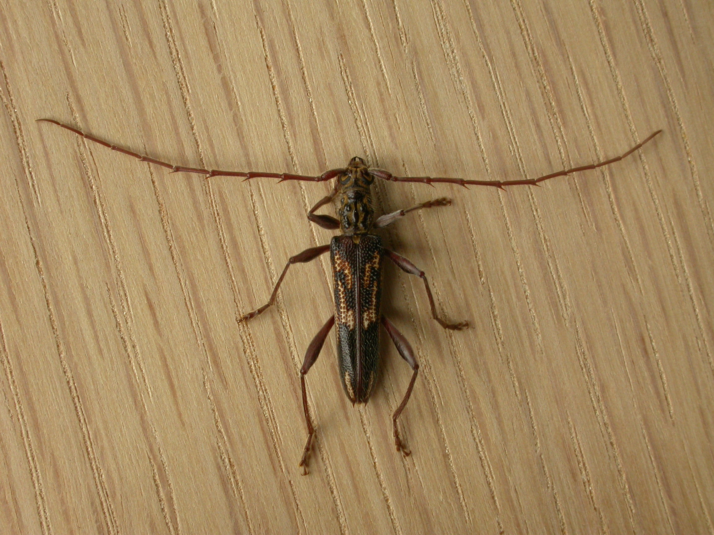 Coptocercus rubripes, to MV light, Aranda, ACT, 11-12 September 2008